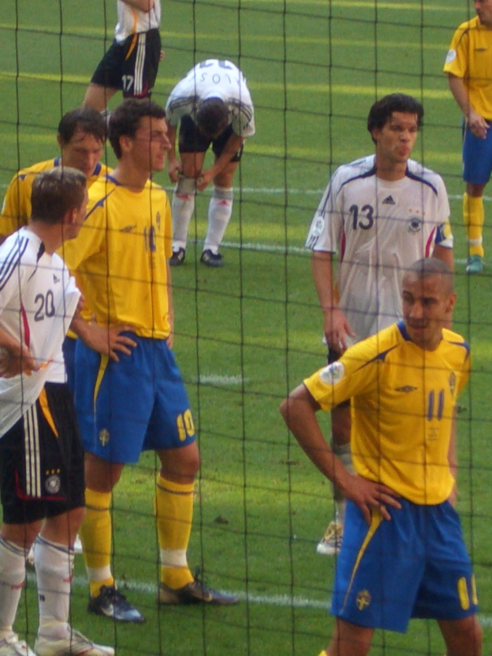 Round of 16 in 2006 FIFA World Cup, between Germany and Sweden.